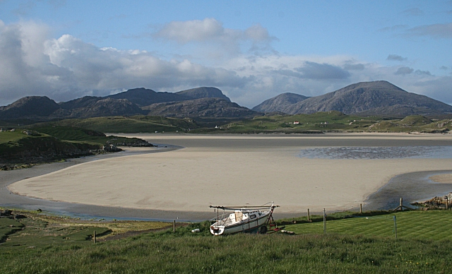 Tràigh Uige from Timsgearraidh At low tide the full extent of the sands at Uig can be appreciated. Tahabhal and Mealaisbhal form the background.